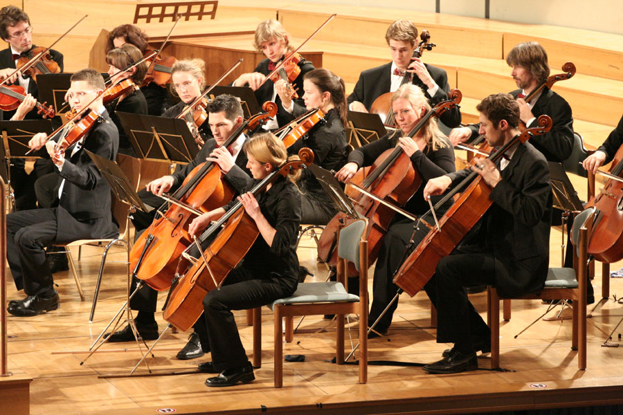 Orchestra of the Munich University of Applied Sciences at a concert in the Great Hall of the Ludwig Maximilian University, Munich